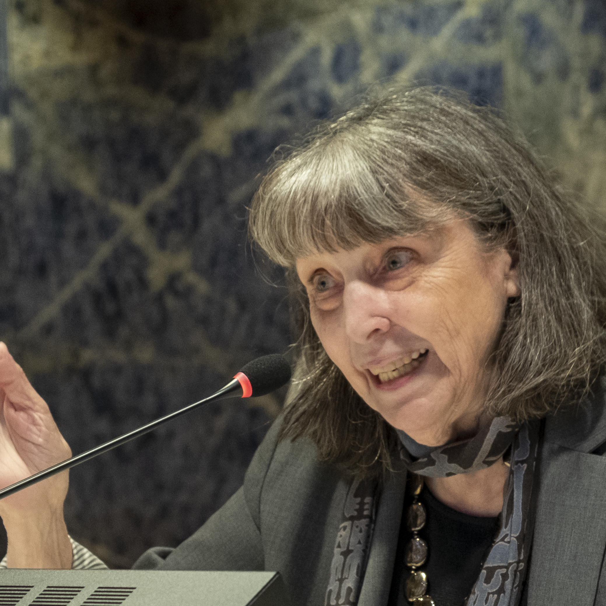 Eleanor Fox Speaking on 10 July at the UNCTAD Intergovernmental Group of Experts on Competition Law and Policy in Geneva, Switzerland. Photos: Tim Sullivan (UNCTAD) More